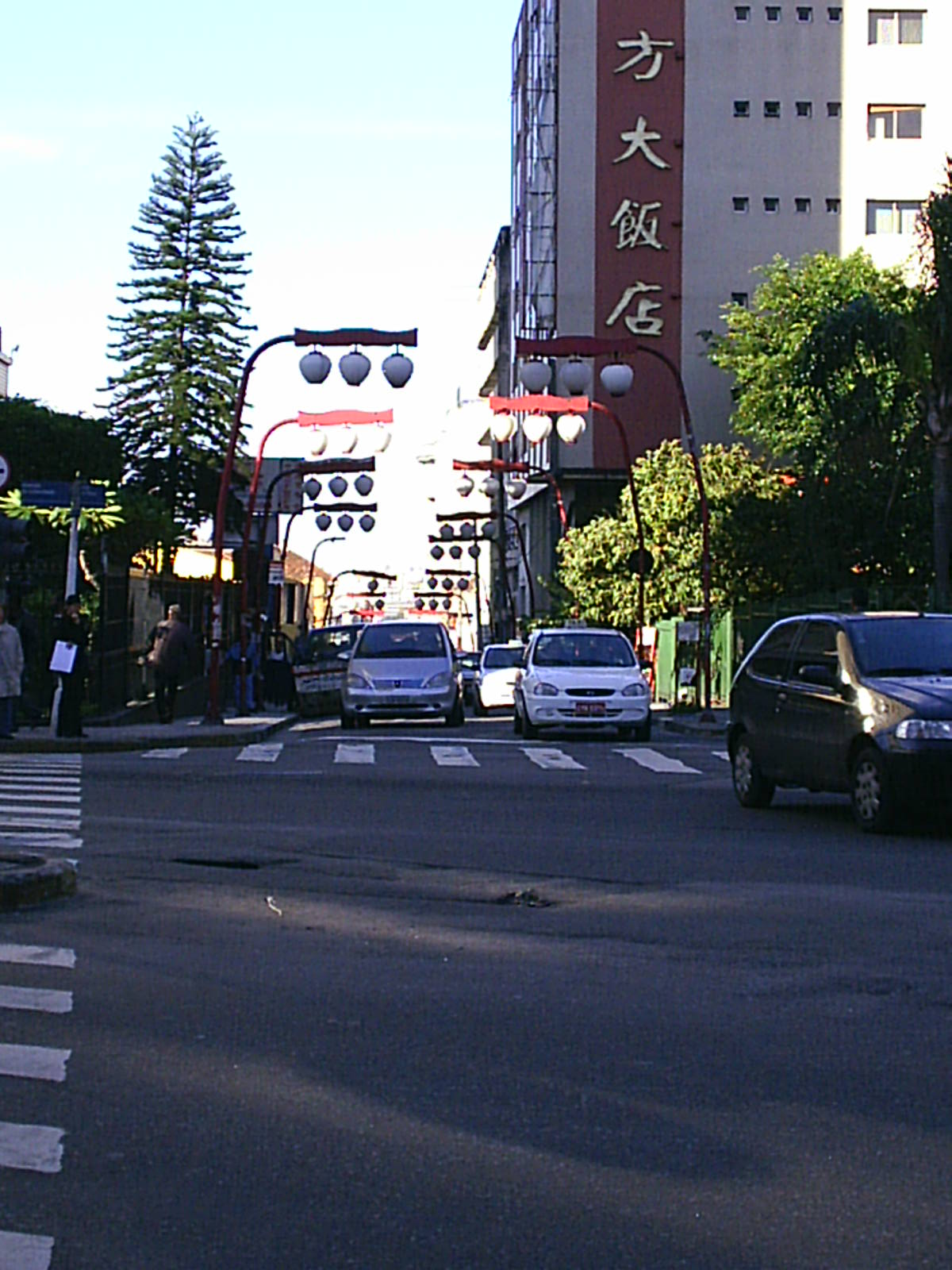 Liberdade region in São Paulo's downtown. The japanese cultural heritage can be seen in the picture.